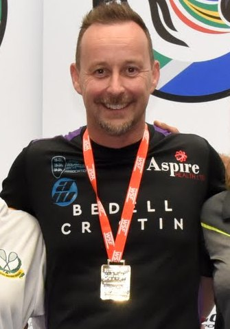 Various winners of the World Squash Masters 2016